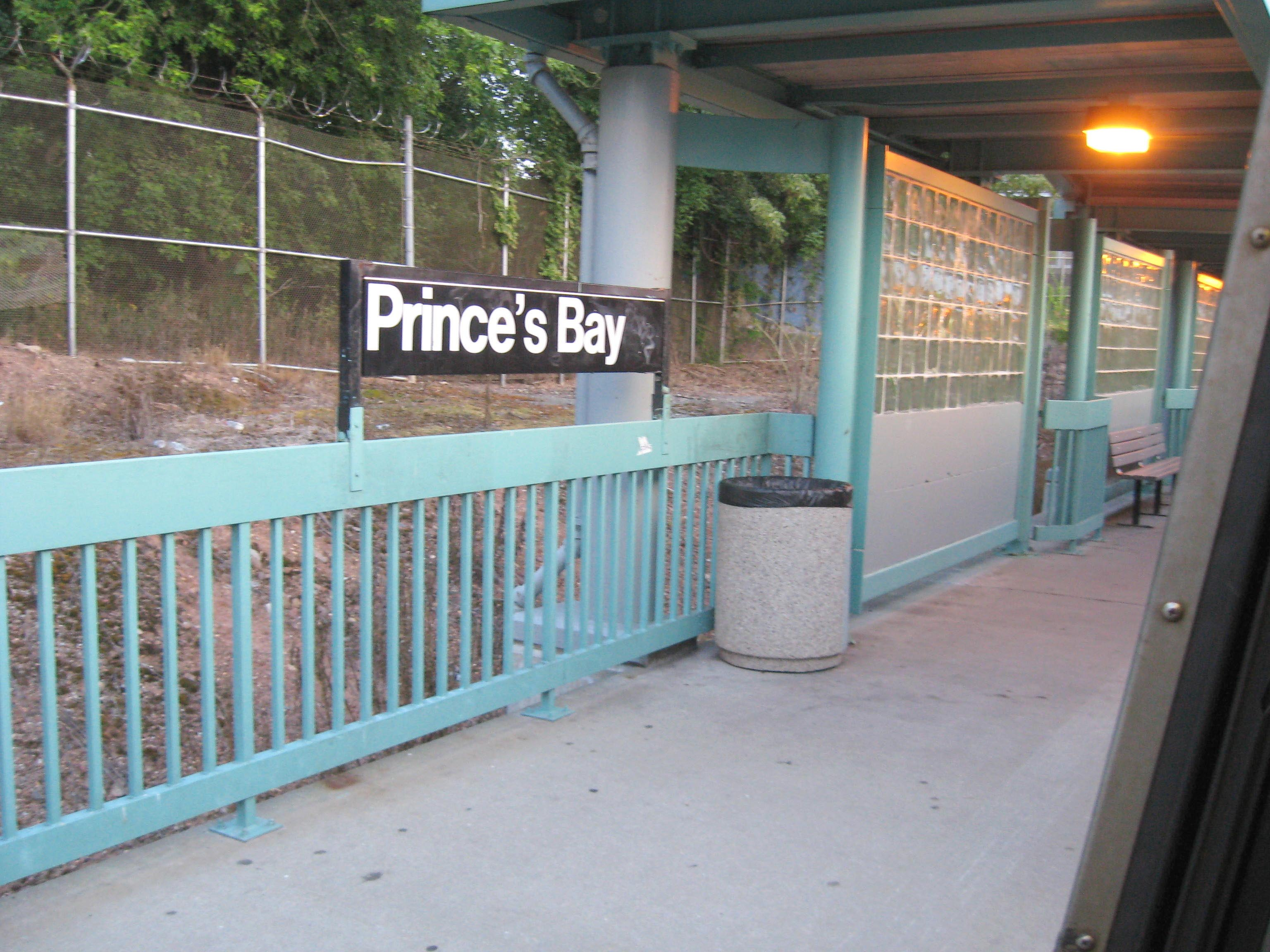 Looking south at dusk of a sunny July 20, 2008 at northbound platform of Prince's Bay (Staten Island Railway station).